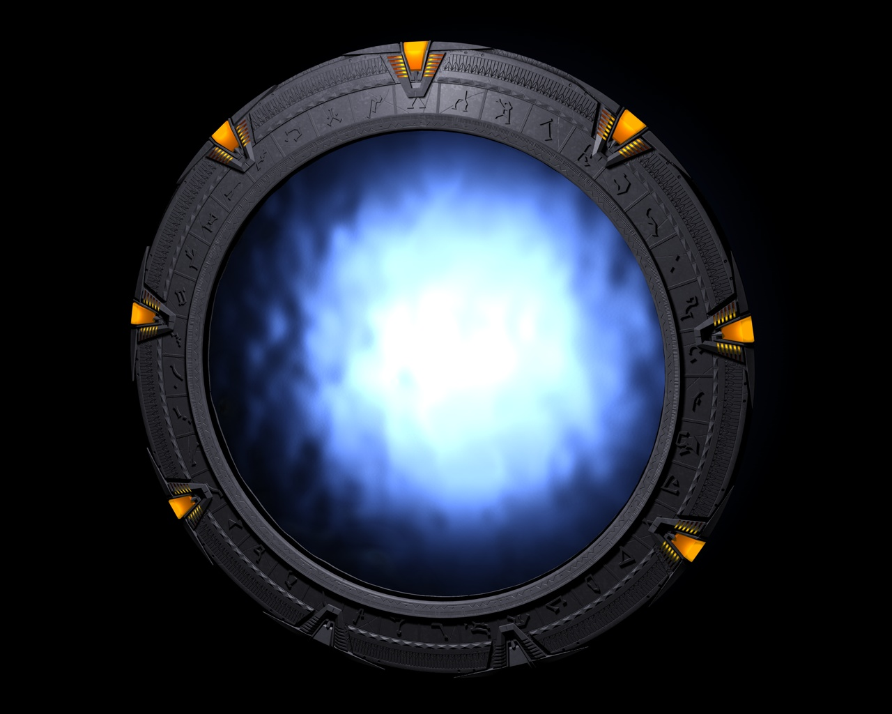 3D model of the Stargate from the eponym MGM film and TV series.